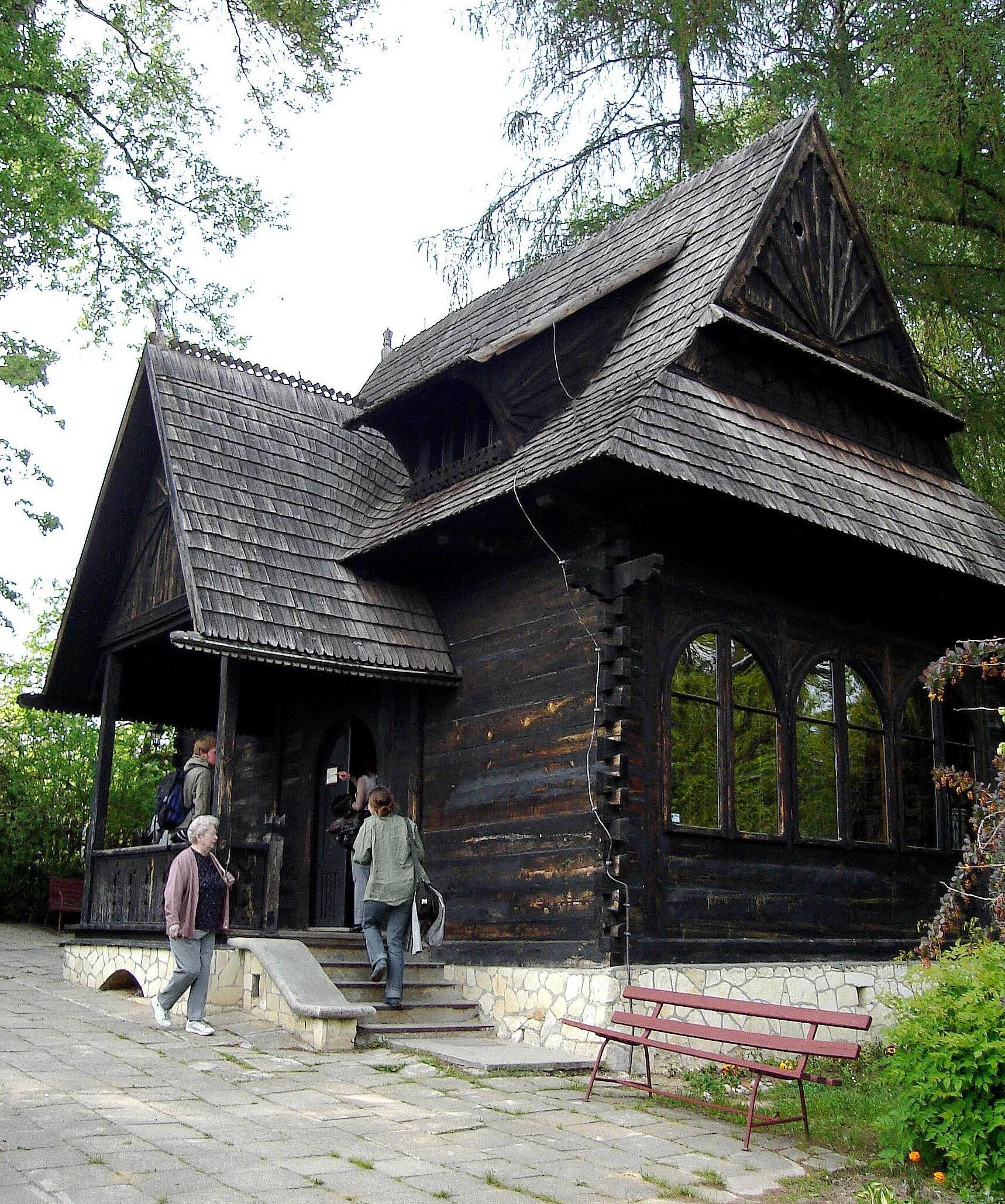 Zeromki house - Naleczow